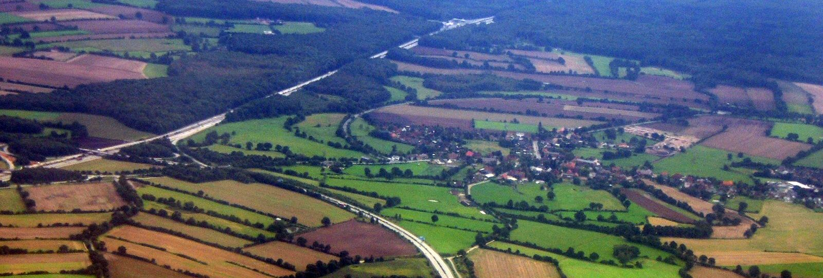 Aerial view of Hammoor (seen from the north), Kreis Stormarn, Schleswig-Holstein, Germany, with highways A1 (top left) and A21 (bottom left)